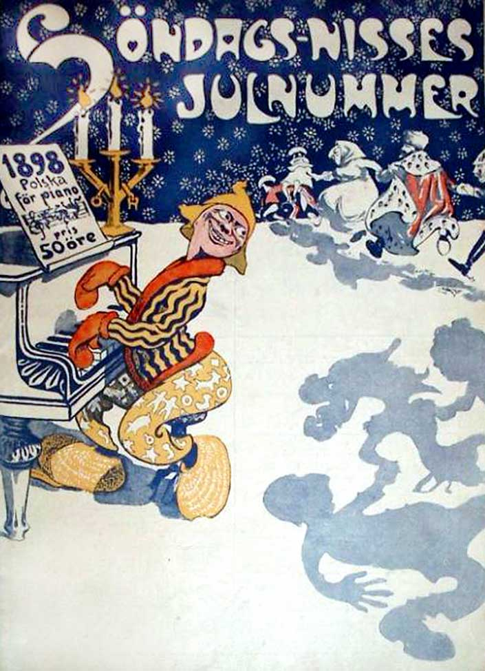 Cover of the Söndags-Nisse 1898 Christmas issue